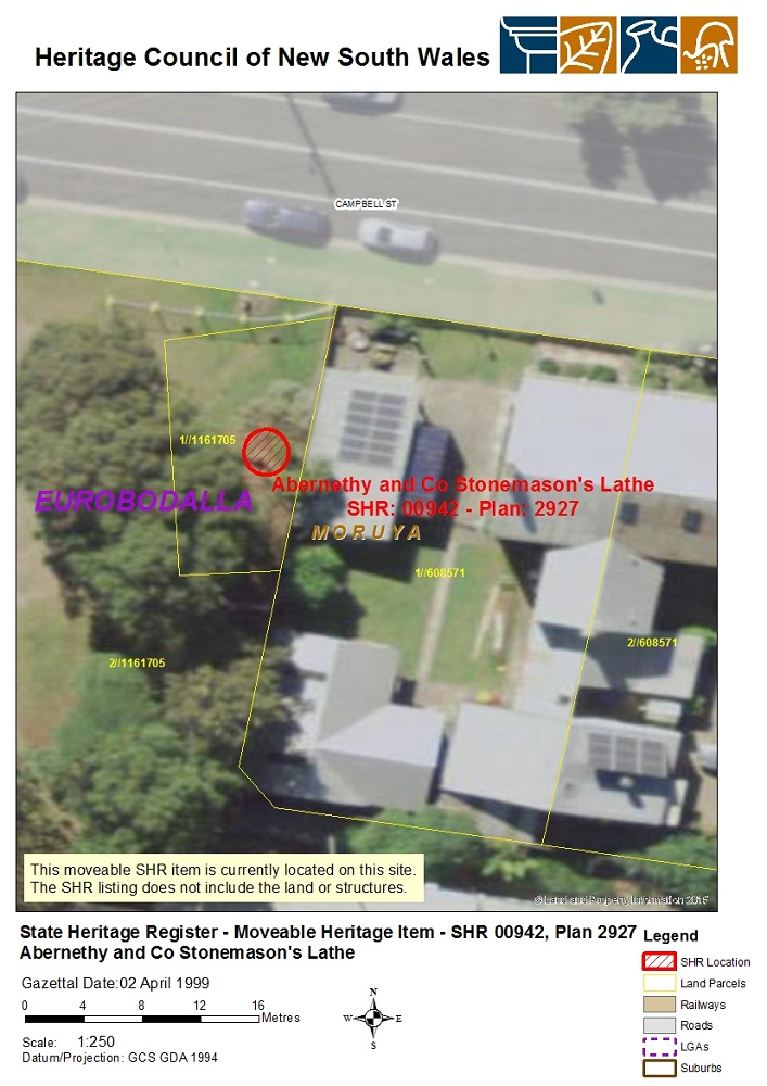 Abernethy and Co Stonemason's Lathe: SHR Plan No 2927